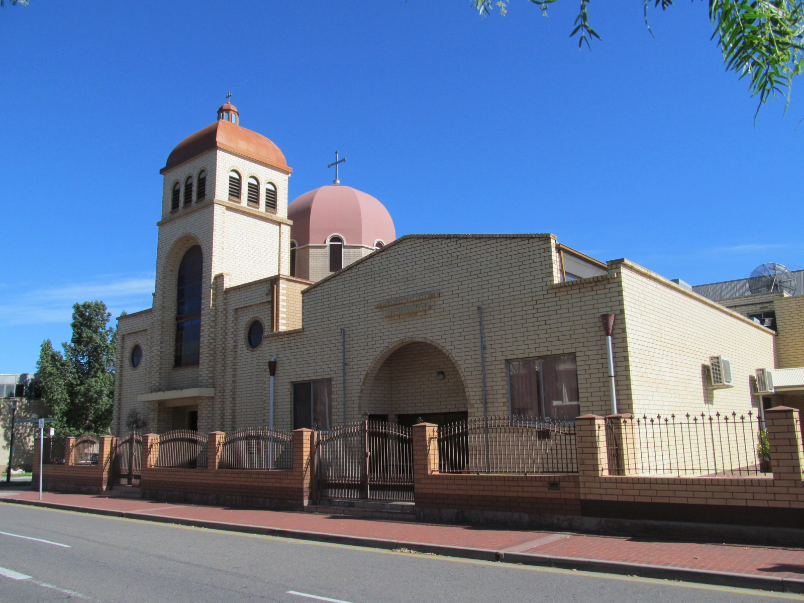 Free Serbian Orthodox Church of St Sava, Hindmarsh, Adelaide.